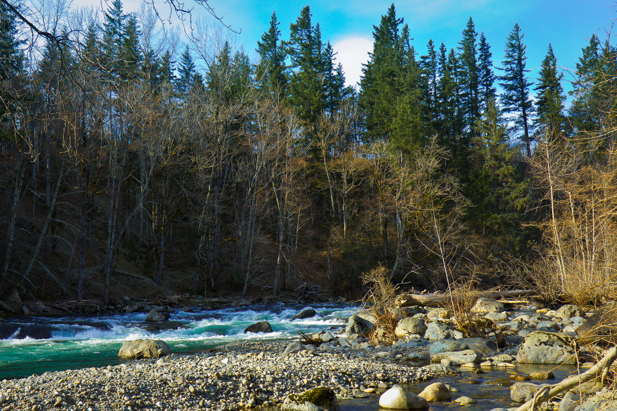 Rapids of the Green River at Kanaskat-Palmer State Park, Washington, USA